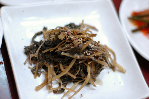 A namul, sauteed wild vegetable in Korean cuisine